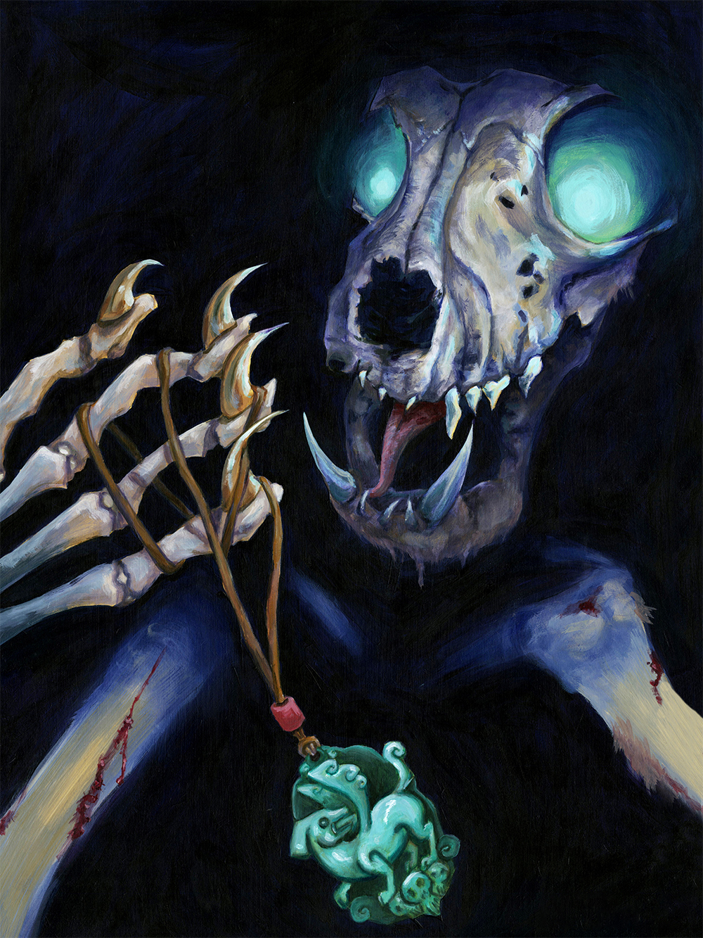 Illustration by Emily Stepp for H.P. Lovecraft's short story The Hound.